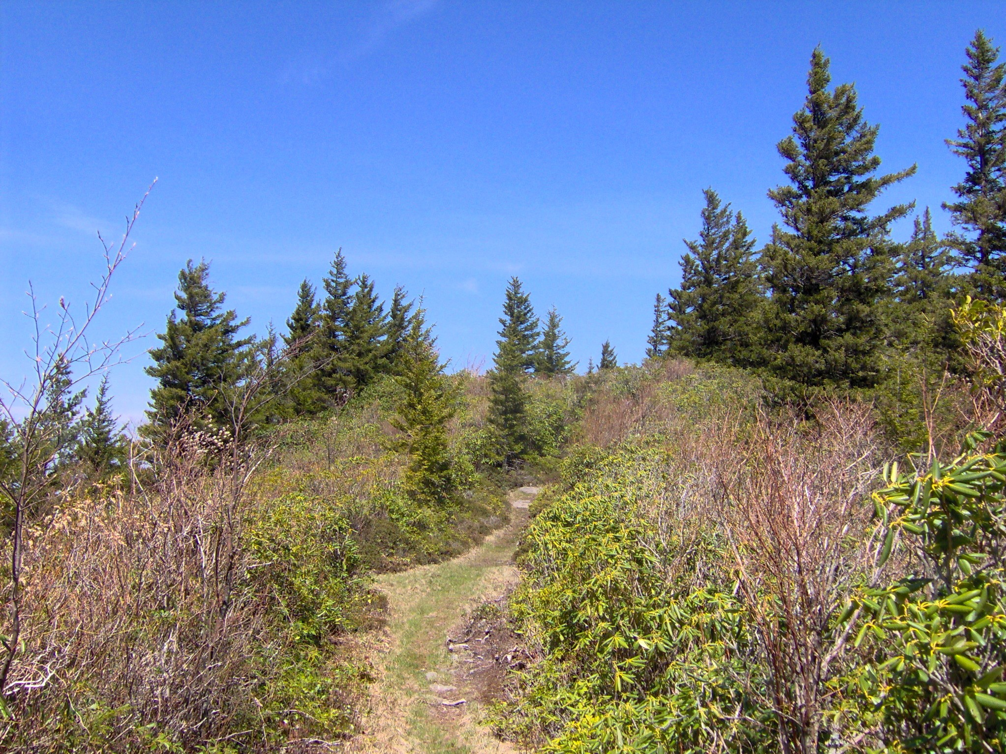 The Maddron Bald Trail crossing the heath bald at the summit of Maddron Bald in the Great Smoky Mountains National Park of Cocke County, Tennessee, in the southeastern United States. Trees are Picea rubens.